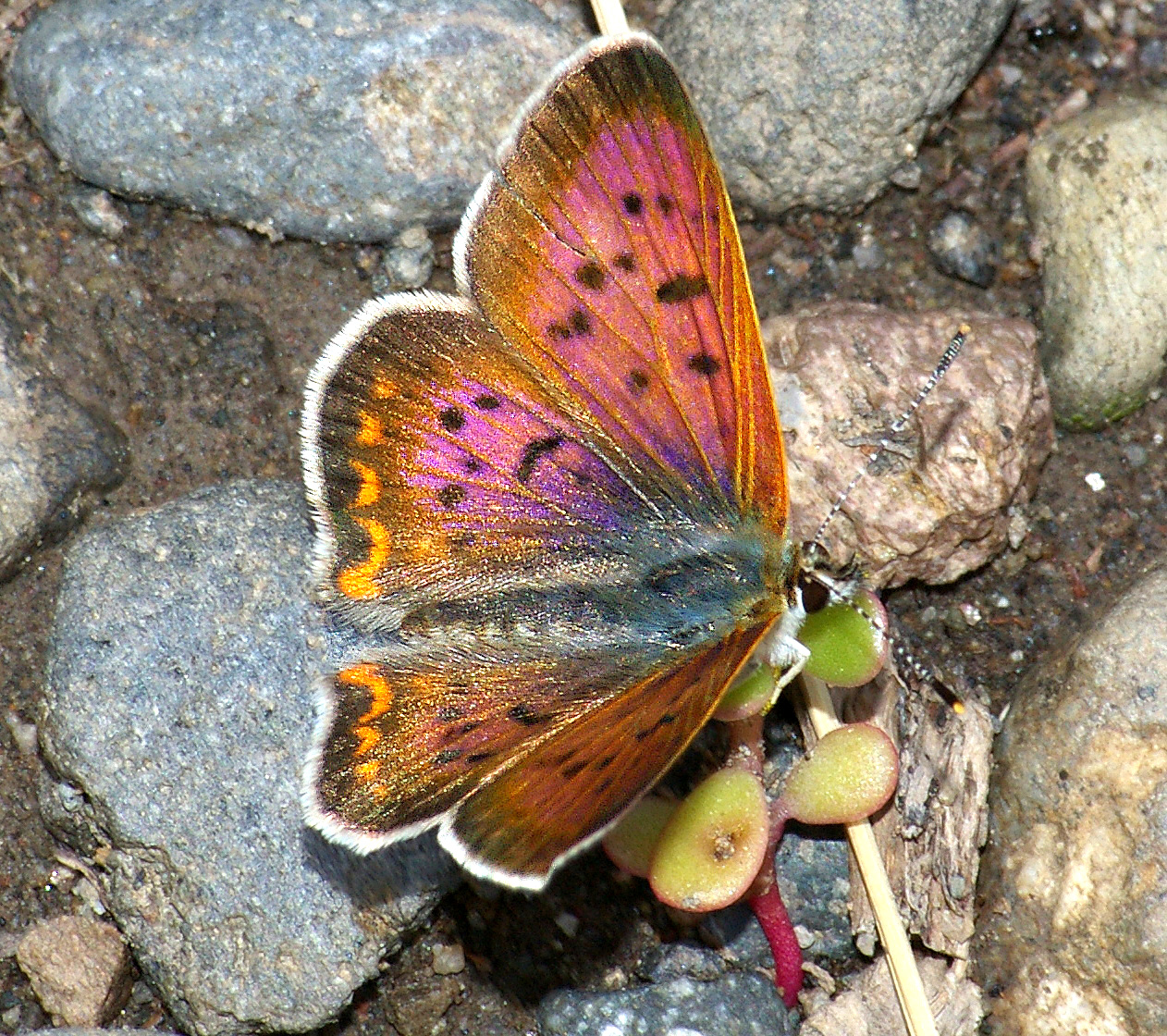 Butterflies of North America